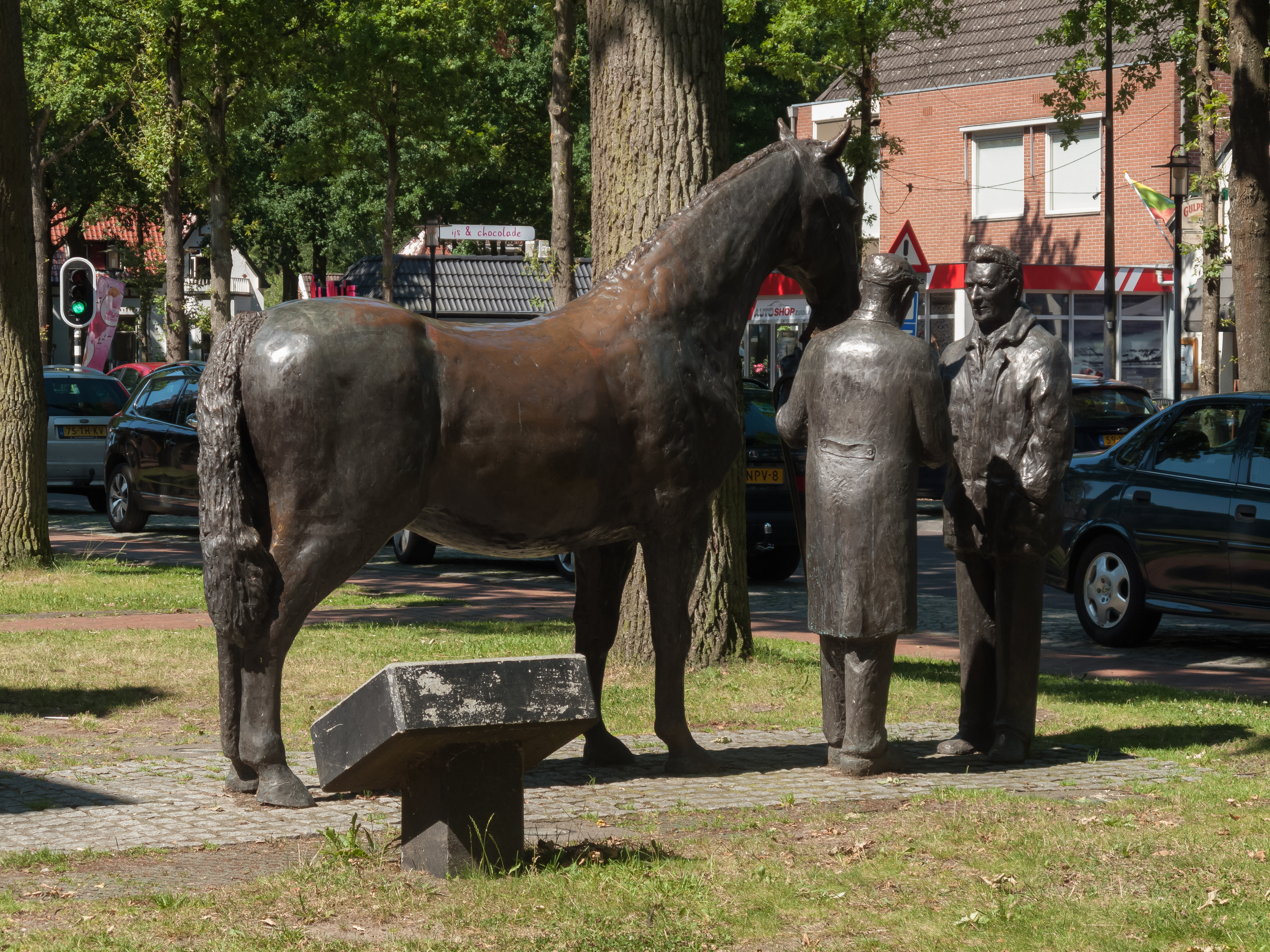 Zuidlaren, statue: het Zuidlaardermarktmonument